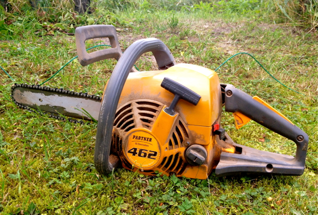 Chainsaw from Partner, Sweden